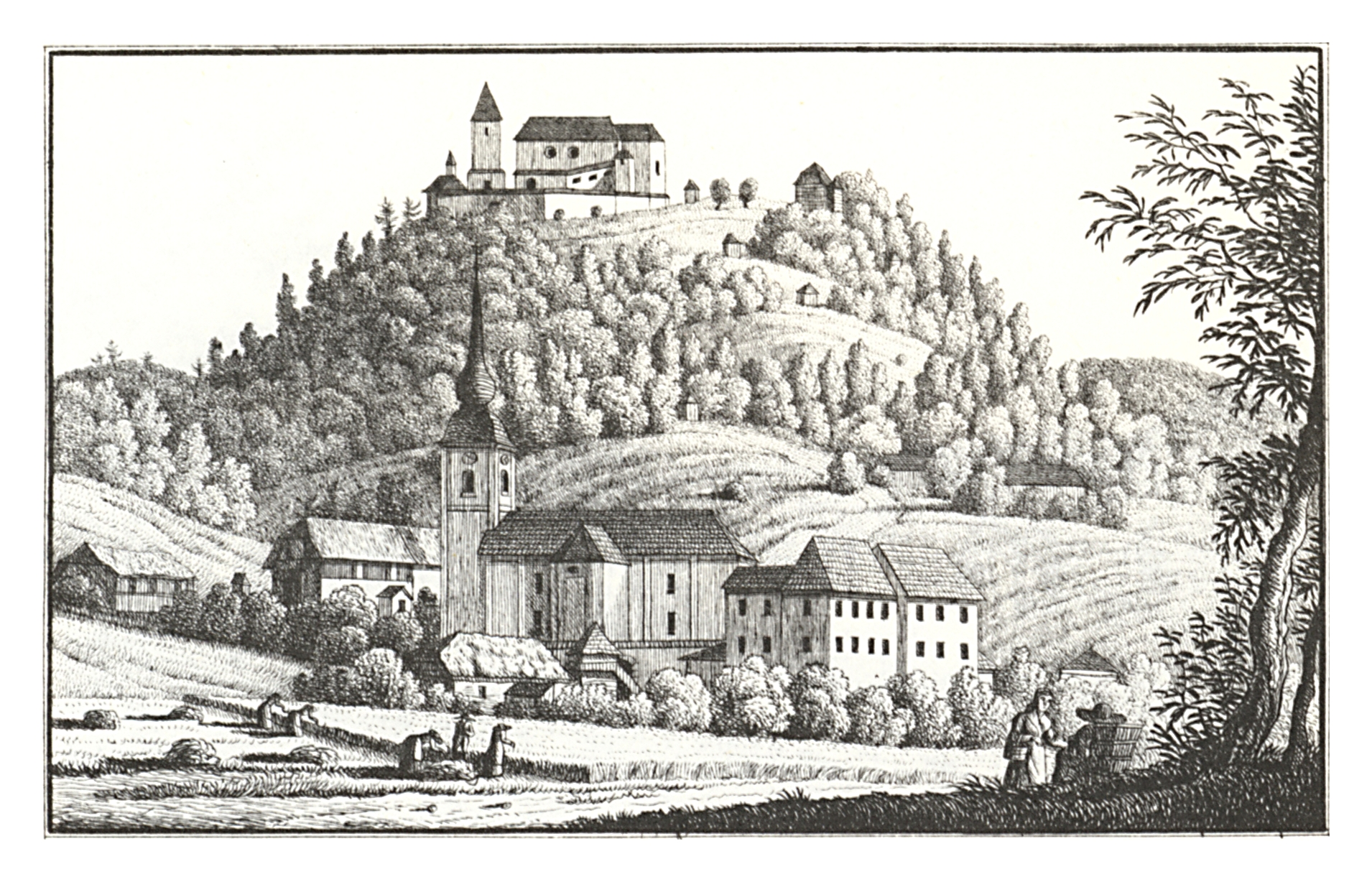 J. F. Kaiser - lithographirte Ansichten der Steyermärkischen Städte, Märkte und Schlösser Graz, 1825 Scanprojekt Community Projektbudget 2012 This scan or this PDF-file was created within the GLAM-project Bookscanning, supported by Wikimedia Germany and Wikimedia Austria as a part of the community-project to capture books, documents and pictures which are not eligible to copyright or for which the copyright has expired. This document describes or depicts an object which is located in Austria today. Send requests for uncompressed scans to Hubertl. This work is in the public domain in its country of origin and other countries and areas where the copyright term is the author's life plus 100 years or less. You must also include a United States public domain tag to indicate why this work is in the public domain in the United States. This file has been identified as being free of known restrictions under copyright law, including all related and neighboring rights.